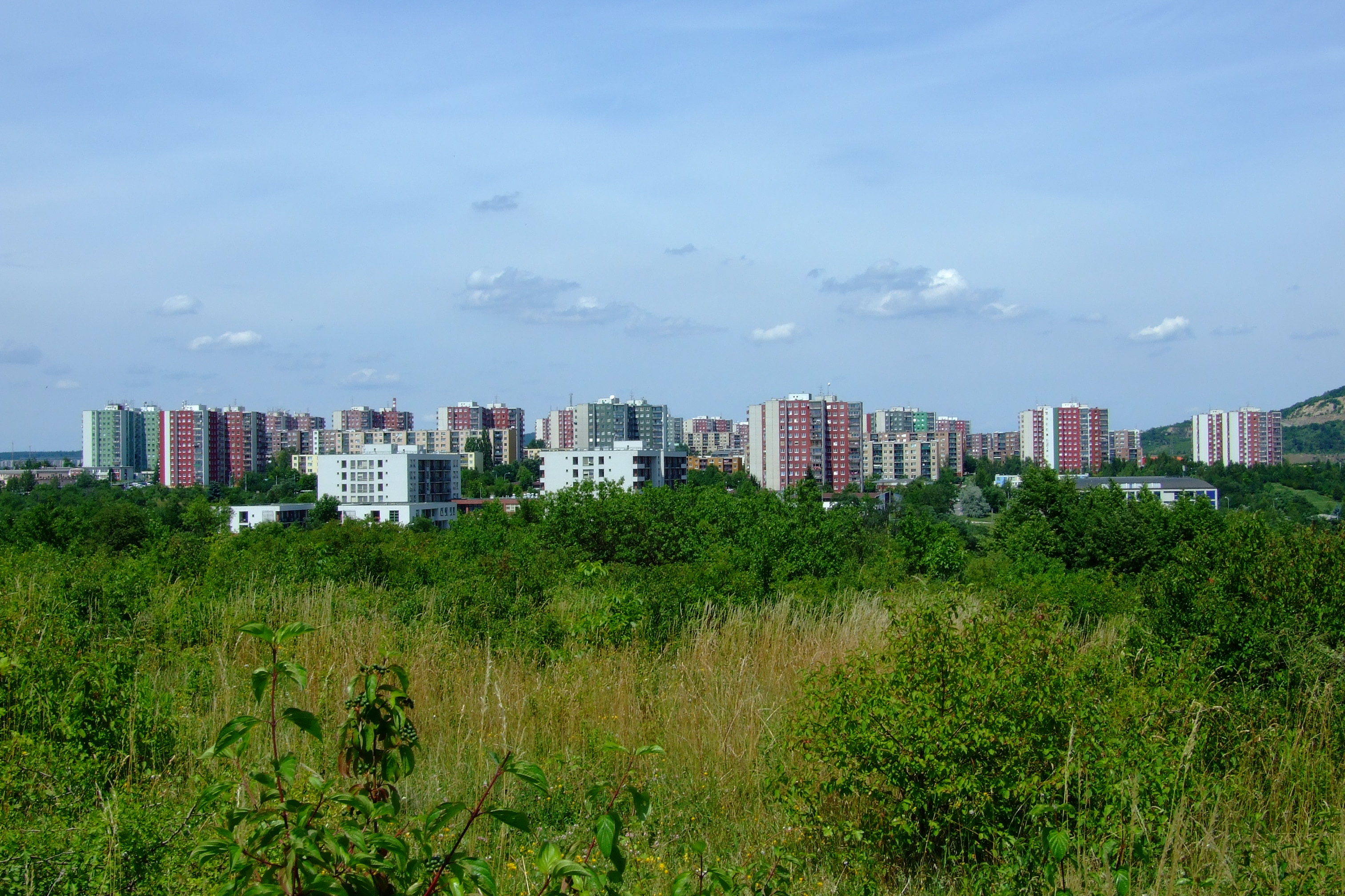 Global view on city district Brno-Vinohrady